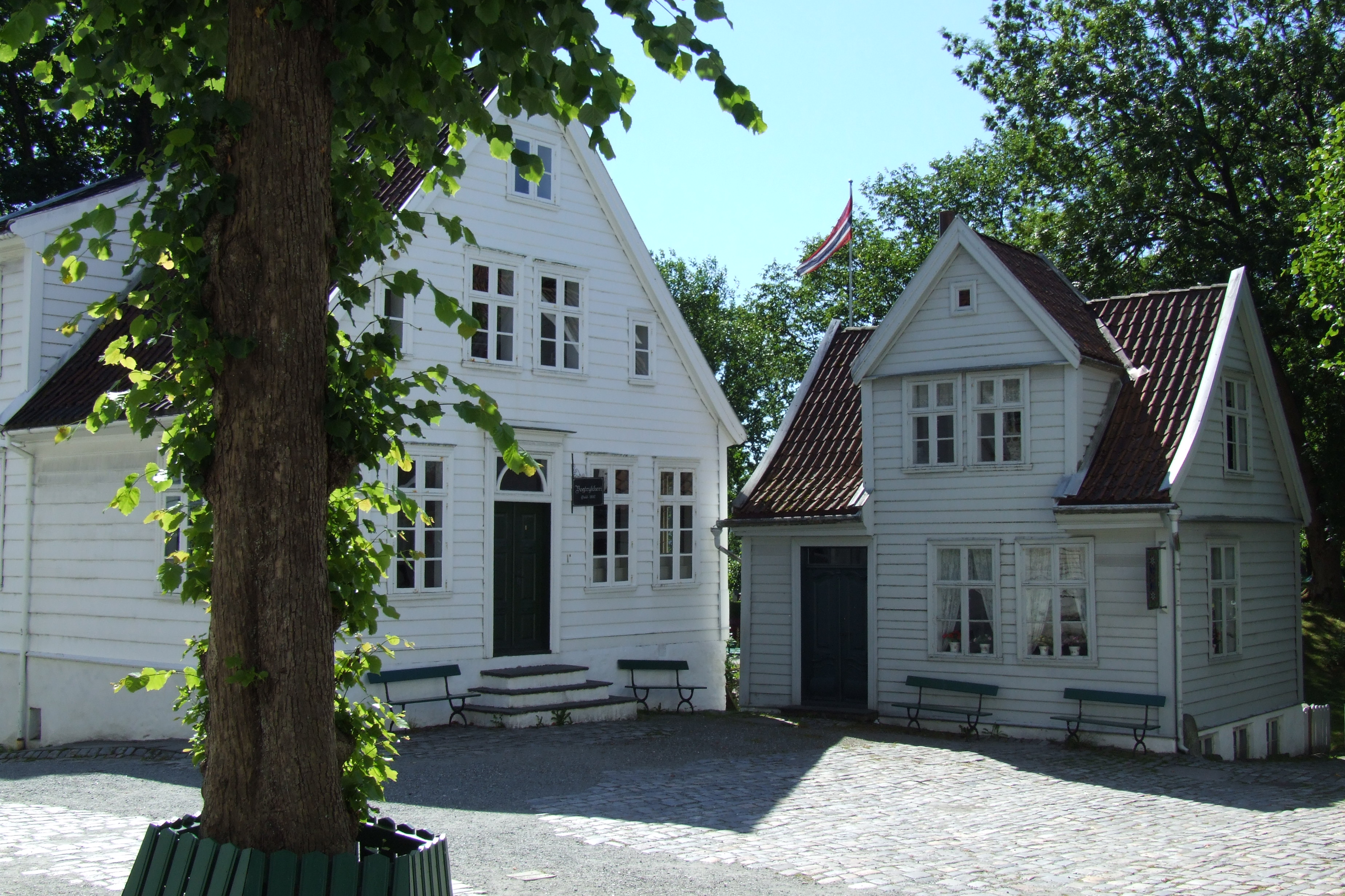 Houses in Gamle Bergen (Old Bergen) - open air museum in Bergen, Norway